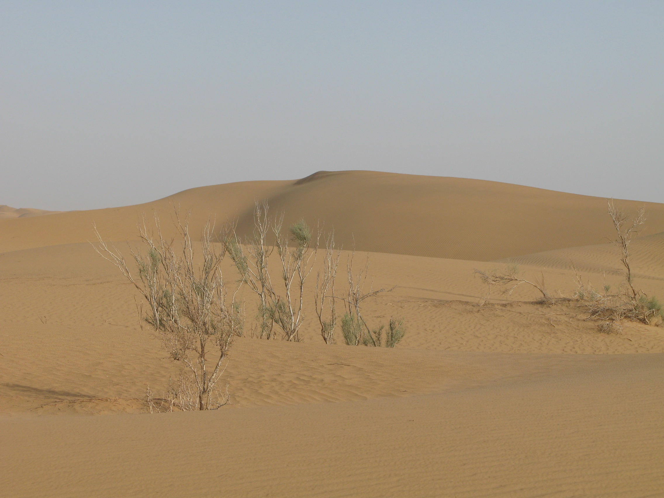 Desert Rub' al Khali, Yemen